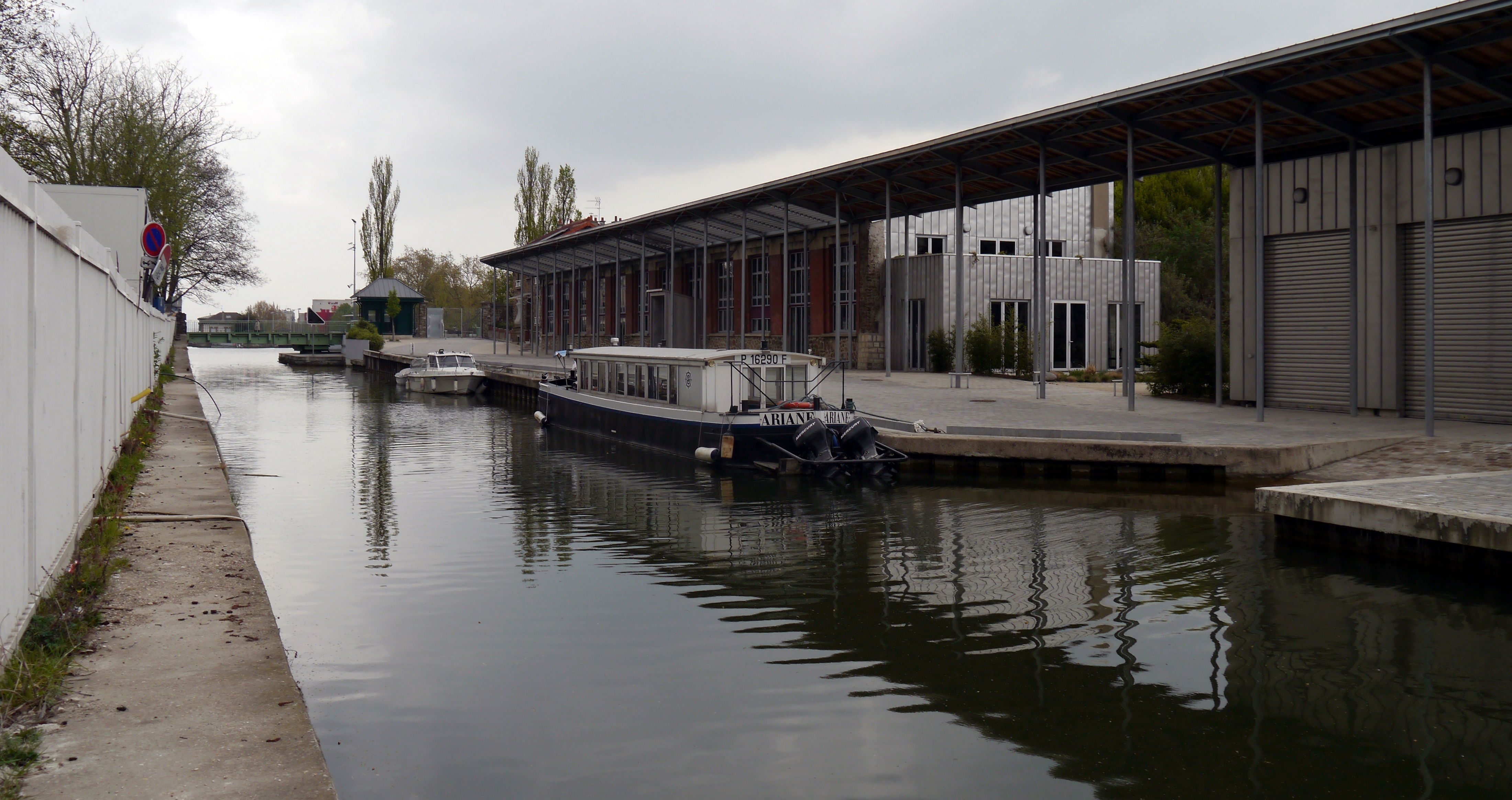 Darse du fond de Rouvray, Paris.